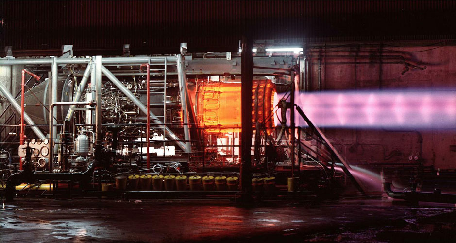 A Pratt & Whitney J58 jet engine during a static test